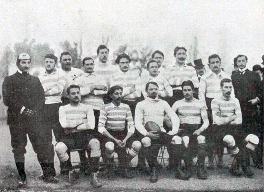 Racing Club de France team, which played London Irish FC at Paris in 1899. From left to right: Pharamond, Goudard, Rutherford, Collas, F.Reichel (cap), Tauzin, Chastiané, Lefèvre-Hubert, Lefèvre, Aïtoff, Lesage, Bernstein, Sarrade, Ertzbeshoff and Muret.